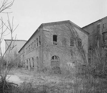 Durham Hosiery Mill, 800 Block of Angier Avenue & Walker Street, Durham (Durham County, North Carolina). Photograph from the HABS—Historic American Buildings Survey images of North Carolina (cropped).